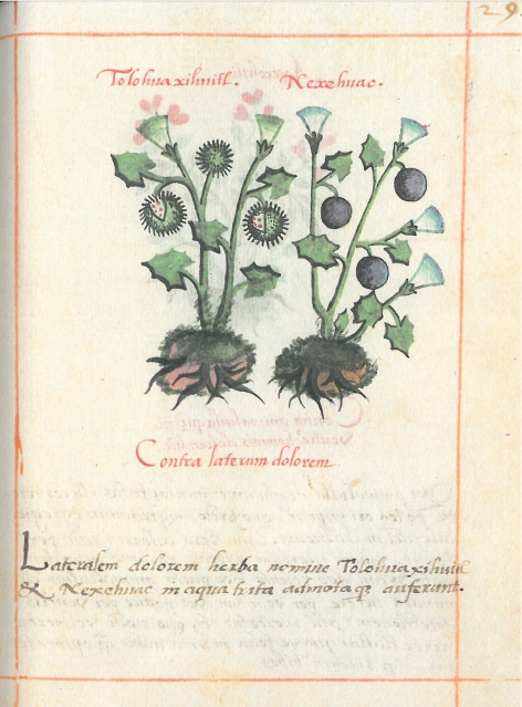 Libellus de medicinalibus Indorum herbis f. 29r: two species of Datura